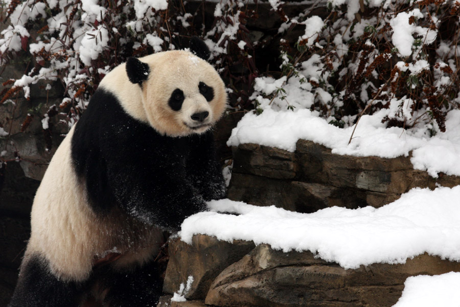 Mei Xiang at the Smithsonian National Zoological Park, February 2010.